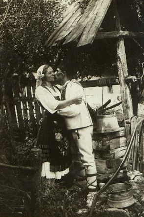 Bulgaria